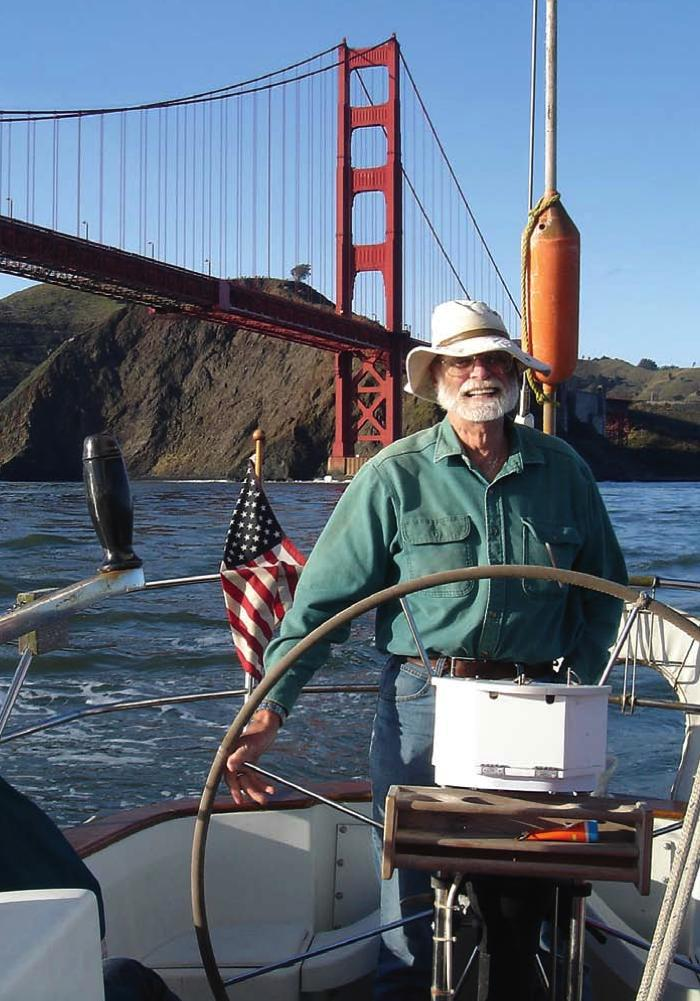 James N. Gray on Tenacious, January 2006